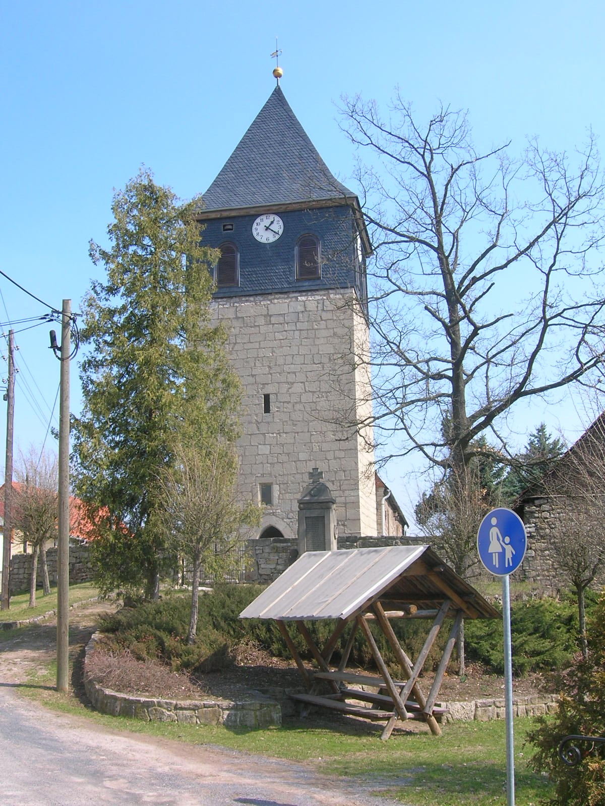 Dosdorf, district of Arnstadt, church